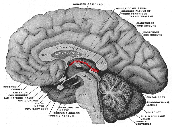 A drawing of part of a human brain.